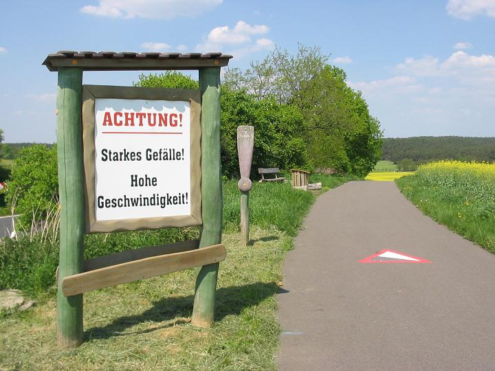 Part of Flaeming-Skate in Brandenburg, Germany. The Flaeming-Skate is a 190 kilometres long way especially for inline roller skating and bicycles in the district Teltow-Fläming. Here between the villages Ließen and Petkus, parts of the town Baruth (Mark), with view to the Golmberg (mountain).